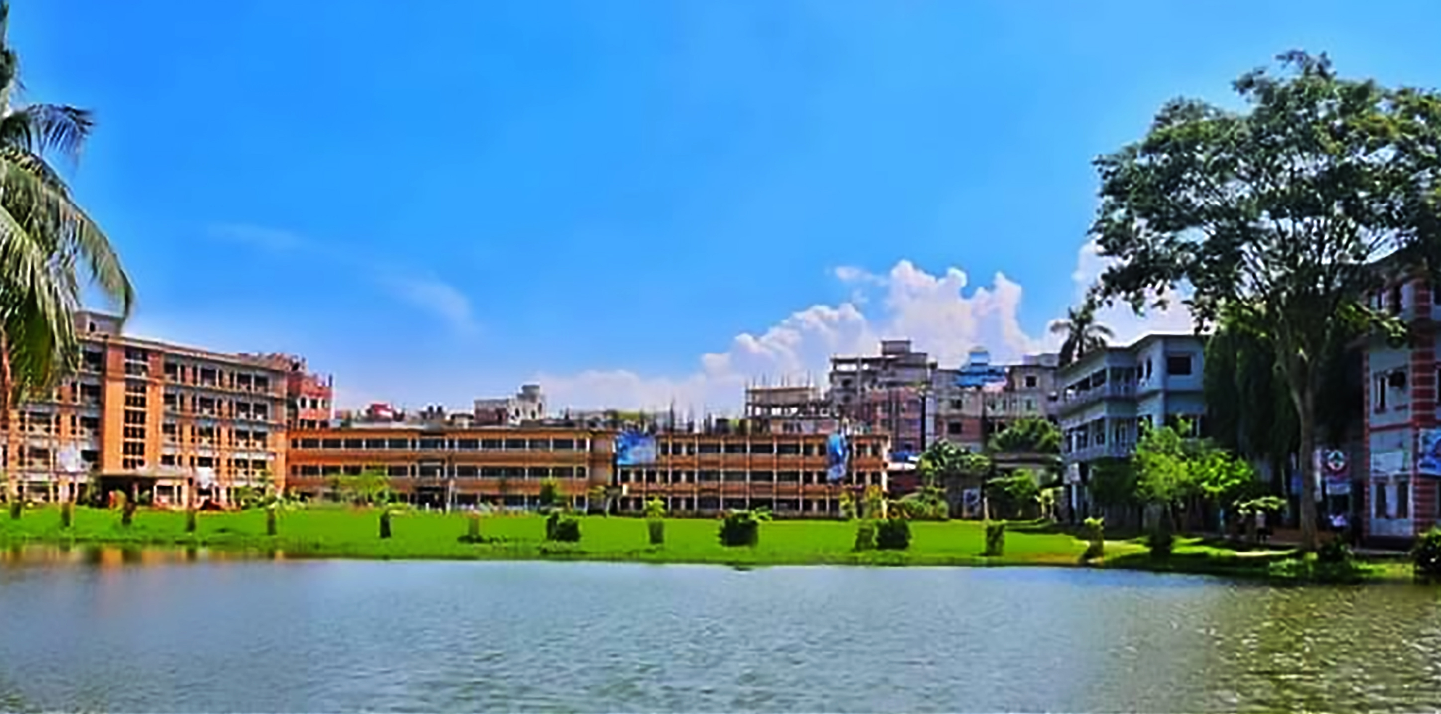 Chandpur government university college, Chandpur Bangladesh